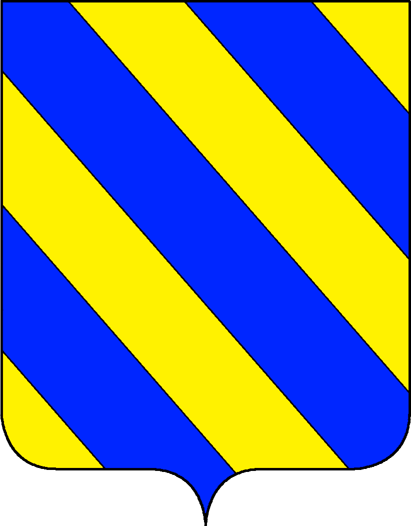 Contarini Family coat of arms